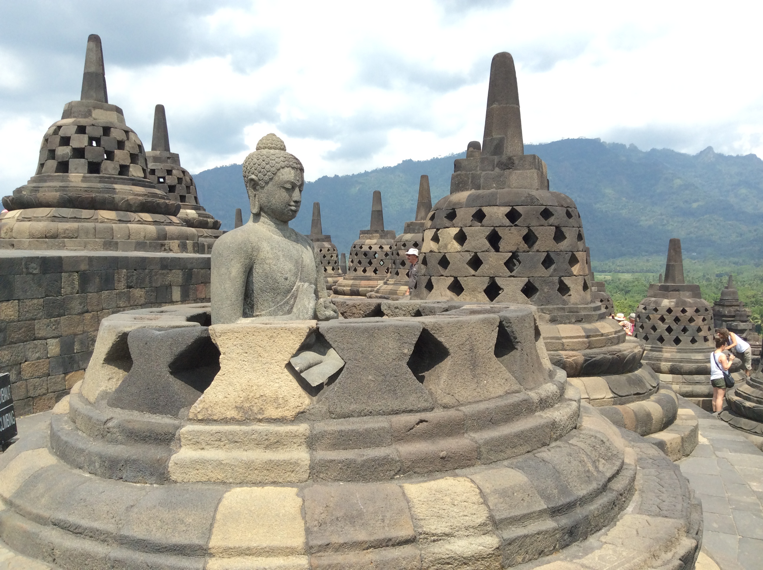 Borobudur Temple, Central Java, Indonesia